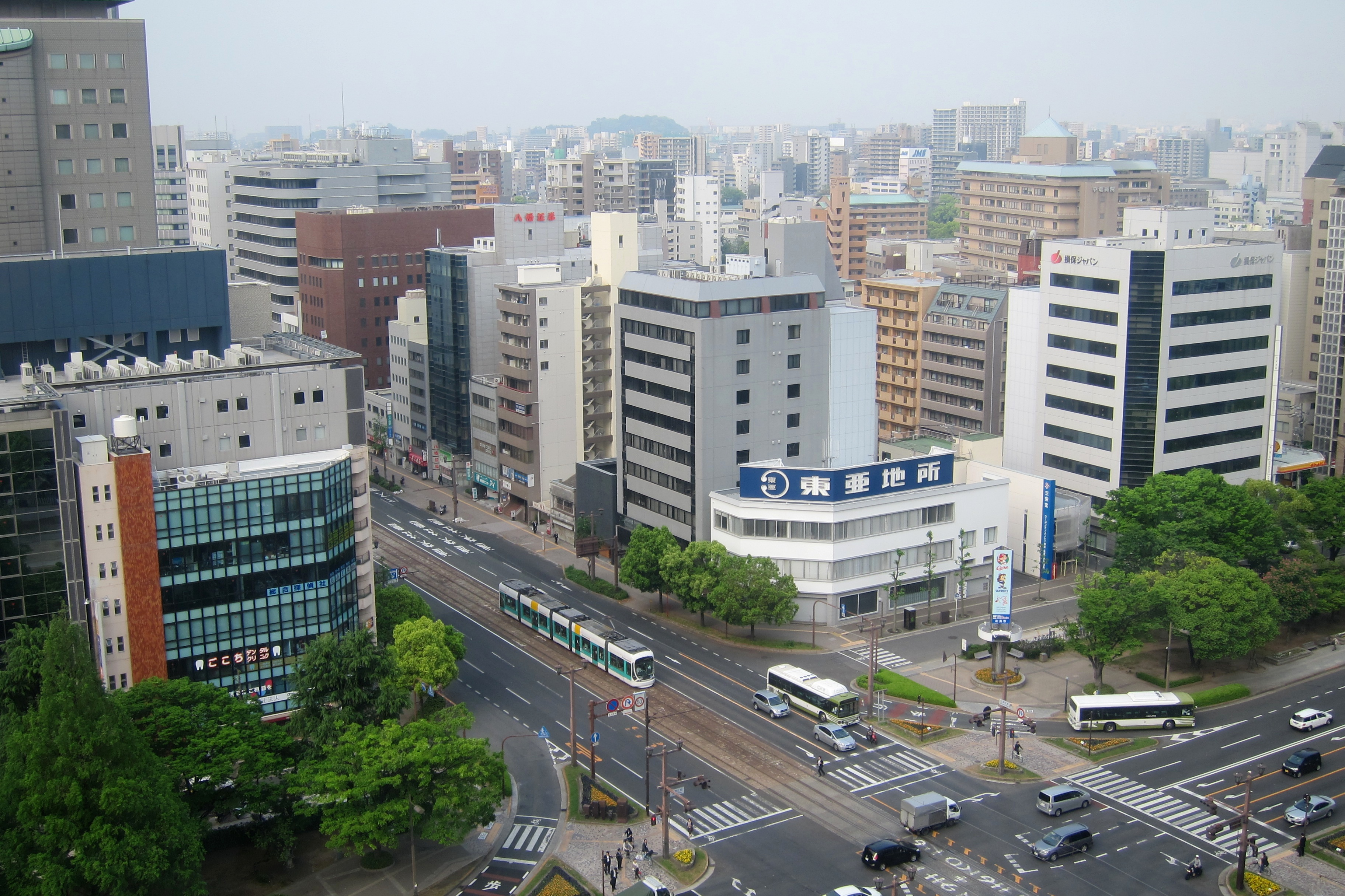 View from ANA Crowne Plaza. The three-story building with signboard "東亜地所" has been demolished.